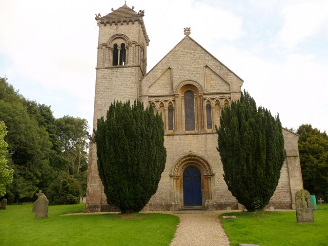 West front of St Nicholas' parish church, East Grafton, Wiltshire